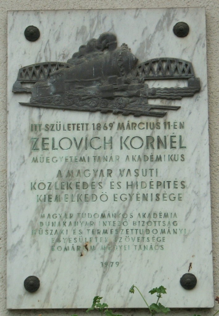 Zelovich Kornél memorial tablet.